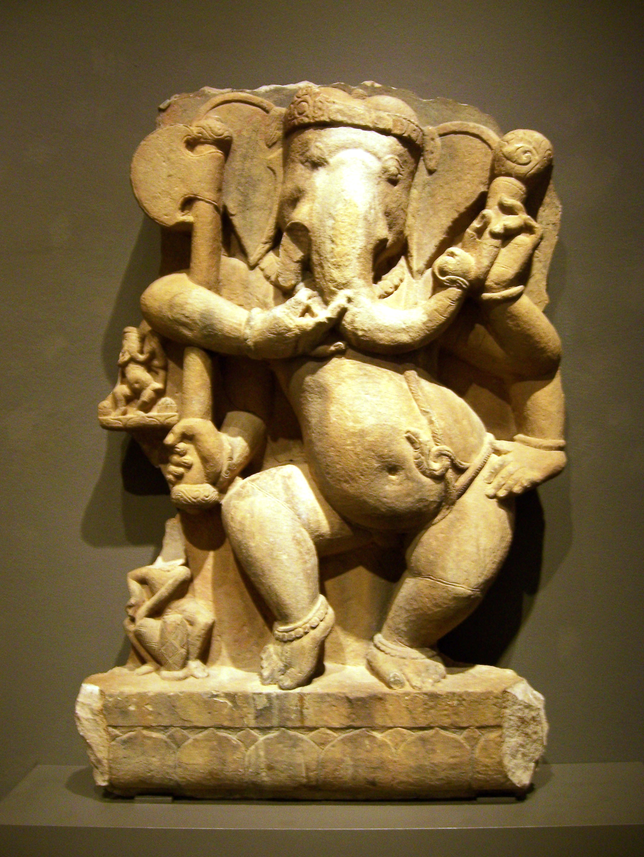 Ganesha statue in Philadelphia Museum of Art